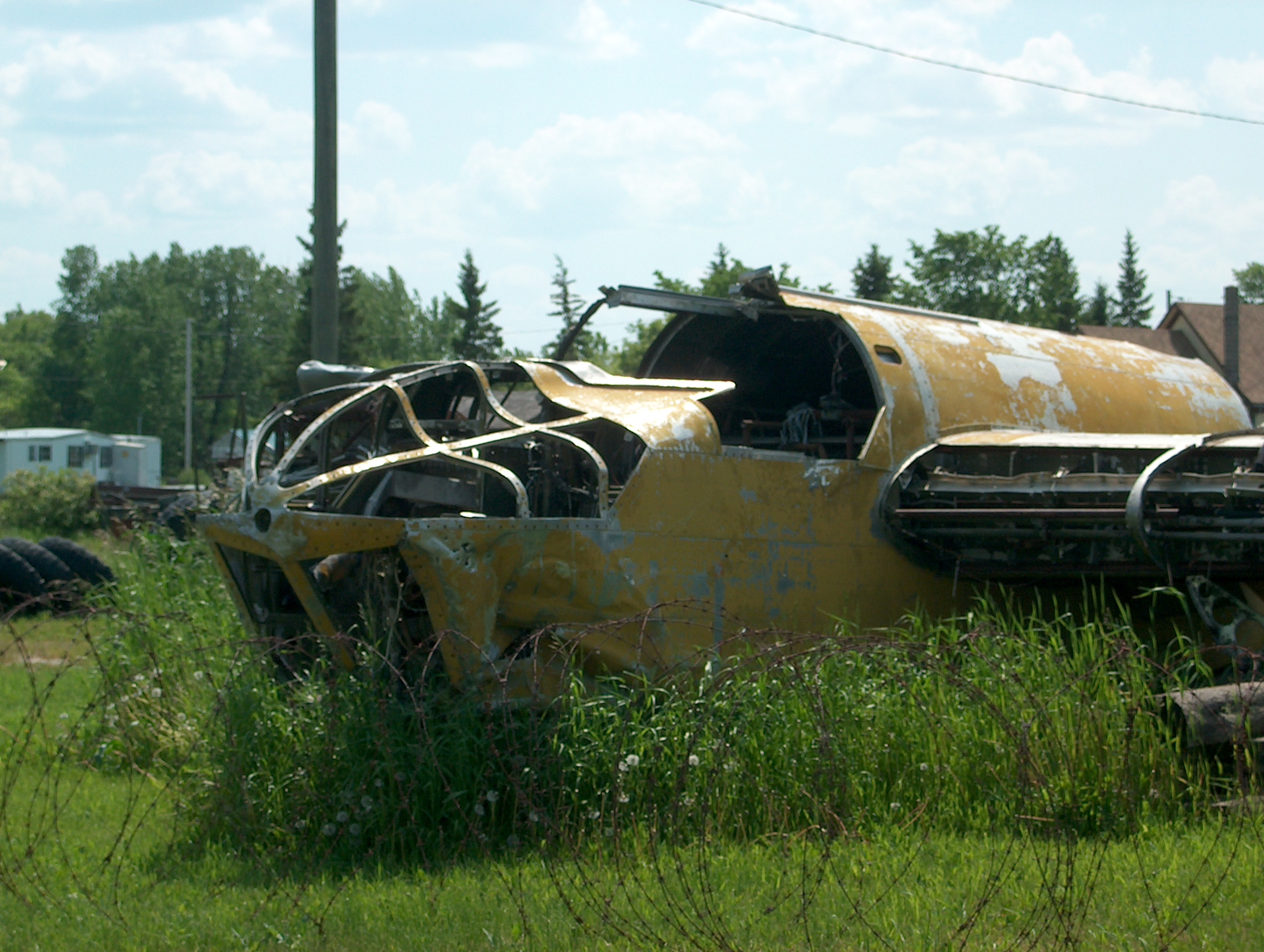 Bolingbroke (canadian version of a Bristol Blenheim Mk.IV) wreck in a Manitoba junk yard, 2006